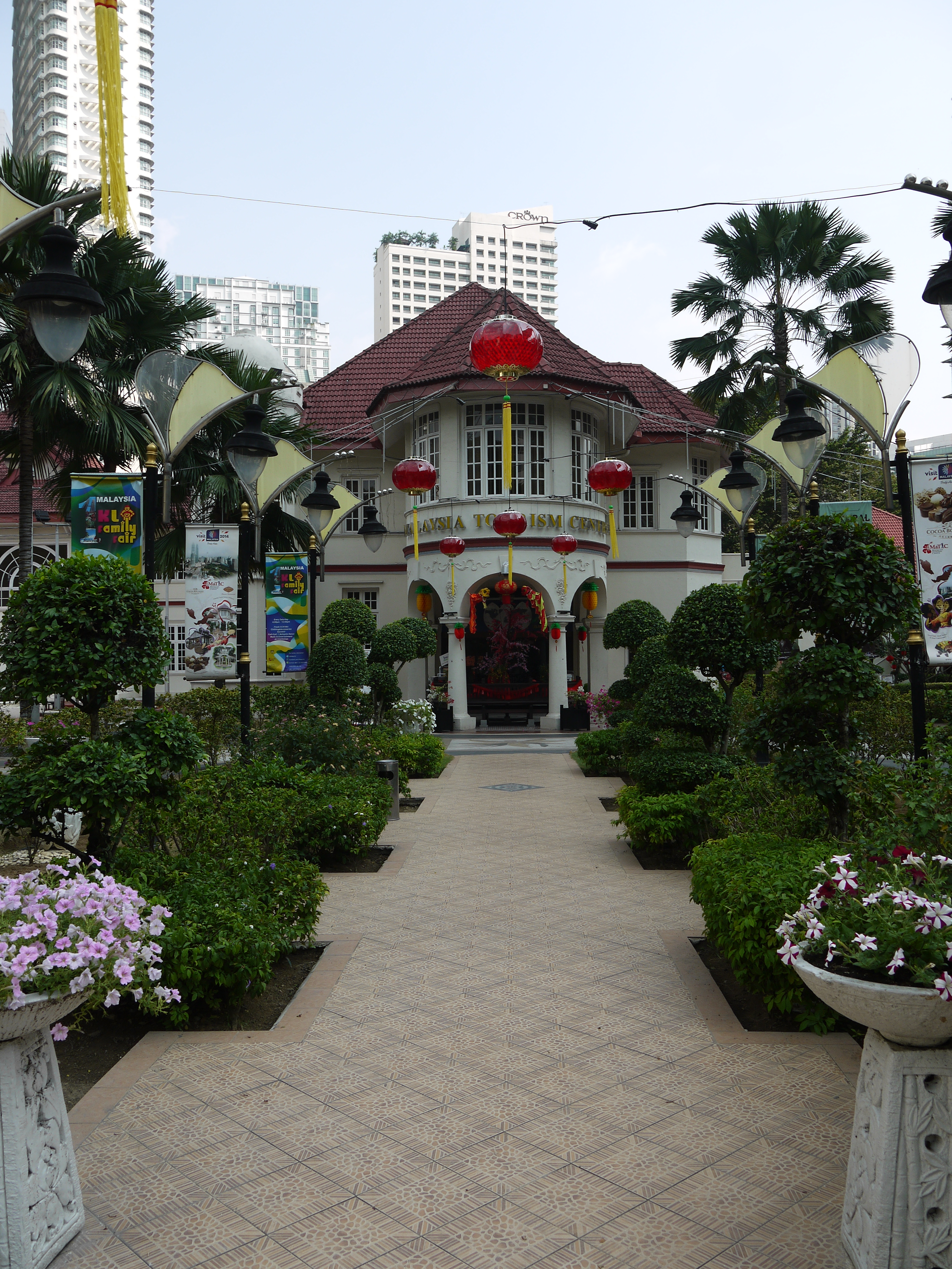 in front MaTiC building